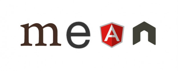 Original MEAN stack logo